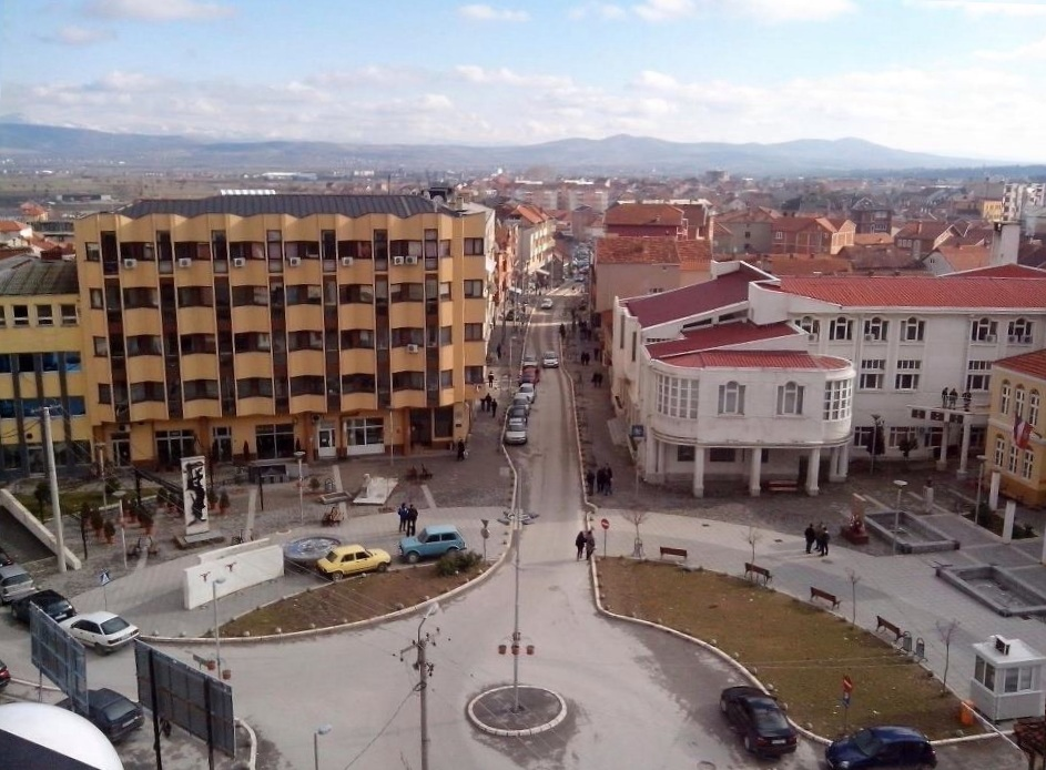 Municipal square Preševo, Serbia